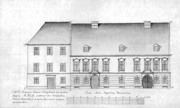 1770, view of facades from Saint Mark's Square, Zagreb